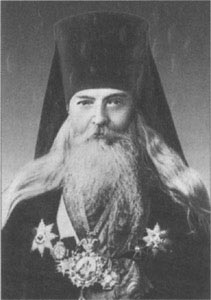 Iuvenaliy (Polovtsev), Orthodox archbishop of Vilnius and all Lithuania